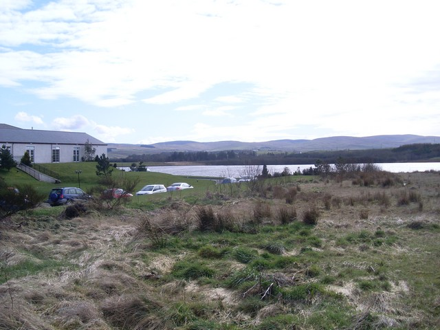 Loch o' th' Lowes and Lochside House Hotel The hotel is at the left of the image. Looking out towards the loch from the path to the west of the hotel.